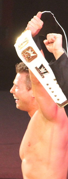 WWE wrestler The Miz as Intercontinental Champion.